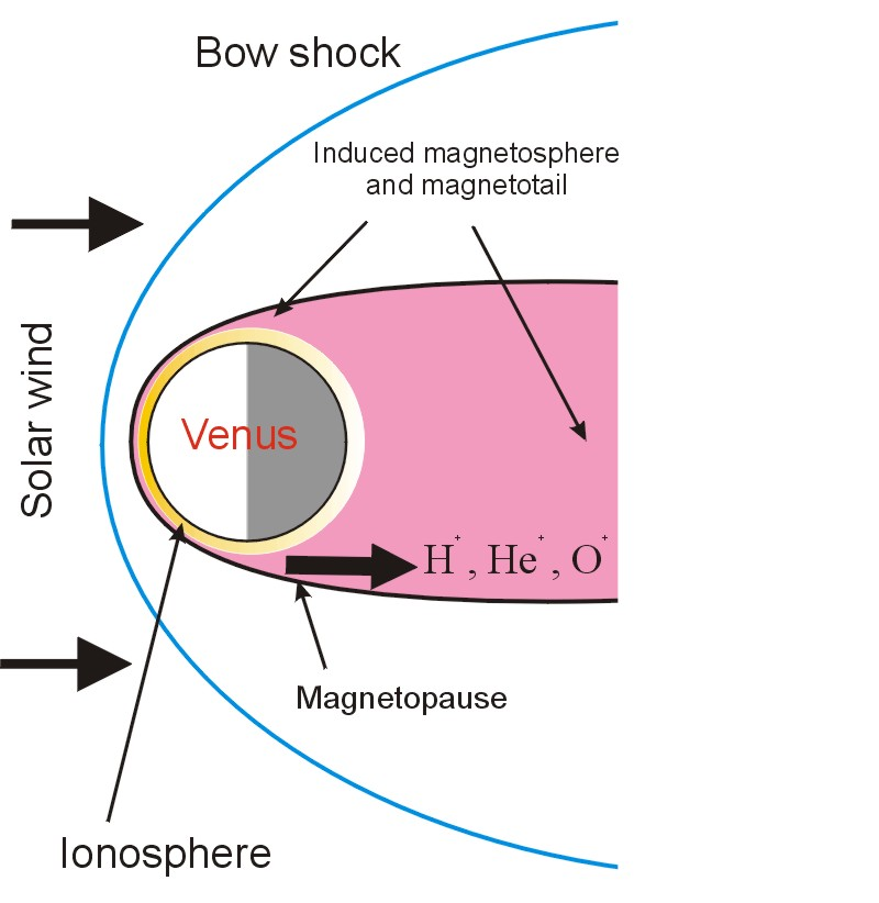 The interaction of Venus with the magnetized solar wind